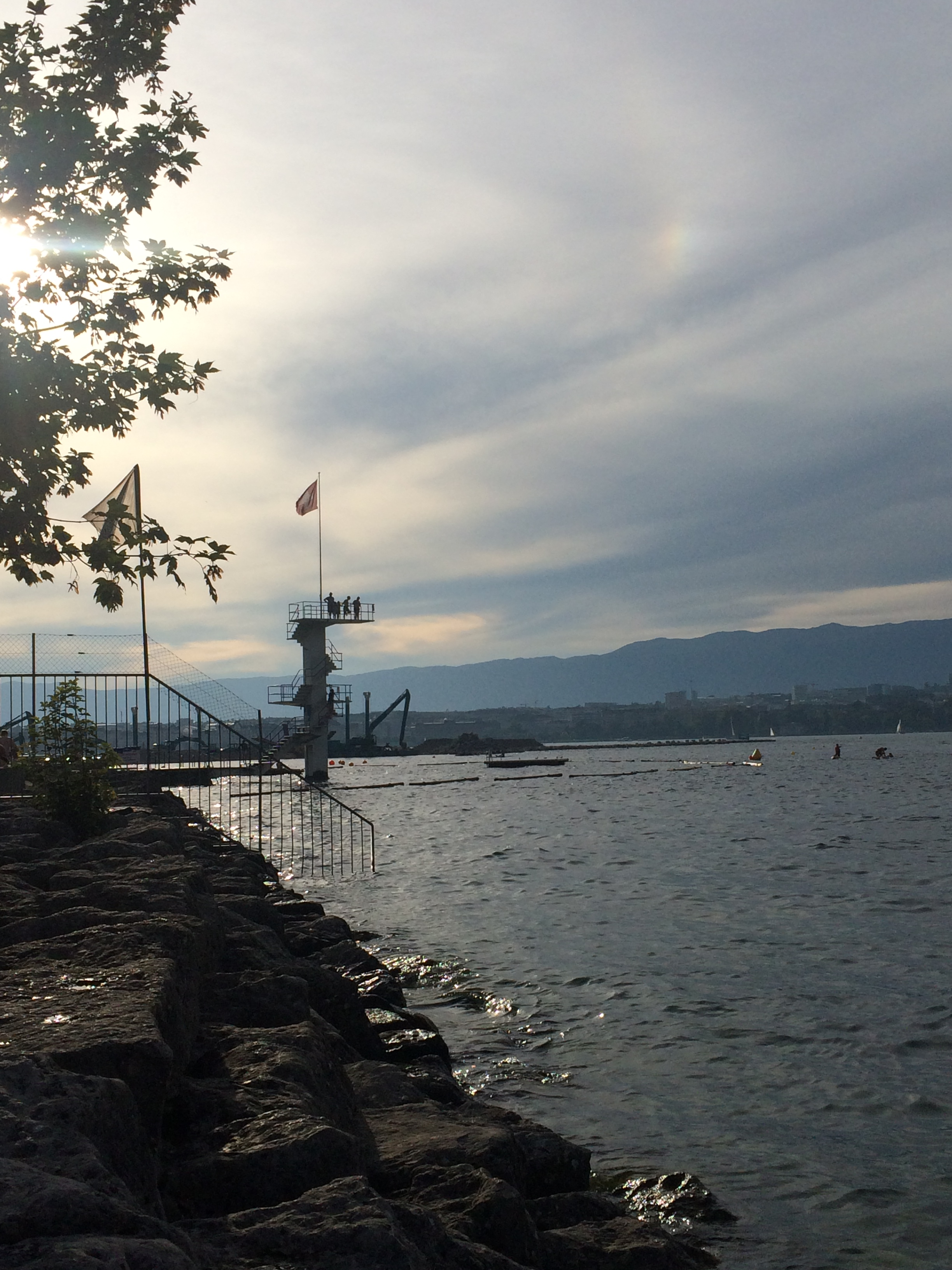 Geneva beach (3) plongeoir